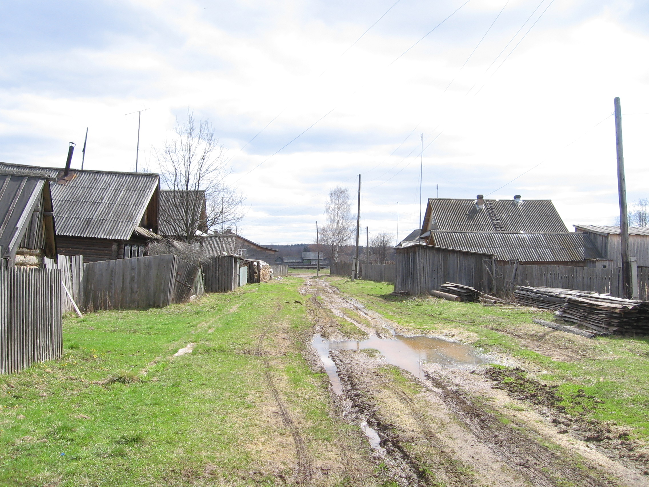 Rechnaya street in the village of Kakmozh, Udmurtia Удмурт: Какмож, Удмурт Республика